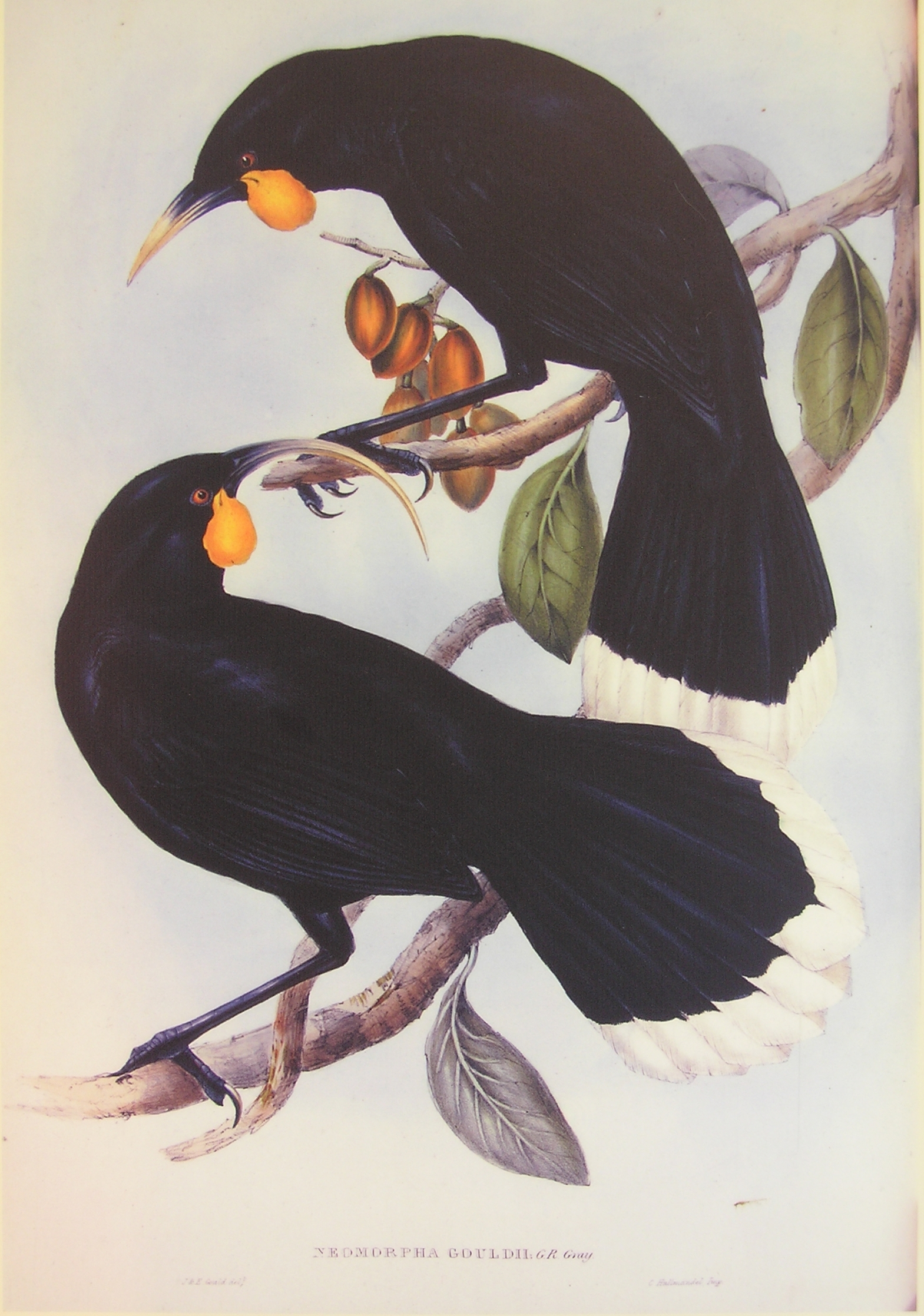 Illustration of a pair of Huia (Neomorpha gouldii 1848, now Heteralocha acutirostris) by John Gould, "The Birds of Australia", vol. III (Extinct New Zealand bird, not native to Australia)